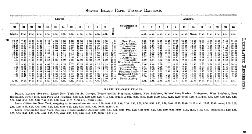 This is the November 3, 1887 issue of the timetable for the Staten island Rapid Transit Railroad. The timetable shows the separate operations of the original Staten Island Railway line to Tottenville and the SIRT lines. The top of the timetable shows the stations and times for the trains to Tottenville, along with the ferries from New York to St. George, and the ferry from Tottenville to Perth Amboy. Old station names such as Grassmere, Garretson's, Court House, Gifford's and Woods of Arden are shown. At the bottom of the timetable, the times for the Rapid Trains, to Erastina on the North Shore Branch and to Clifton on the East Shore Branch are shown. Tompkinsville and Clifton were only served by these trains, while Stapleton was also served by trains from Tottenville.